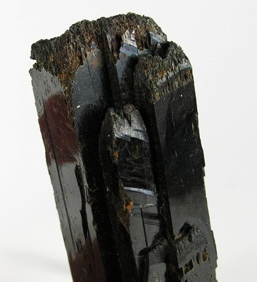 Aegirine, Arfvedsonite Locality: Mt Malosa, Zomba District, Malawi (Locality at ) Size: 7.6 x 2.2 x 1.8 cm. A fine, large, blocky aegirine crystal with splendent, black crystal faces from recent finds at Mt. Malosa, Malawi. The primary termination is very interestingly etched and the other termination is partially etched and partially contacted, so this is a doubly terminated, near floater crystal. The terminations show a slight green coloration, and thus they are more than just etched aegirine: instead, those complex growths are alterations to arfvedsonite and the crystal is caught in the process of changing to a pseudomorph.